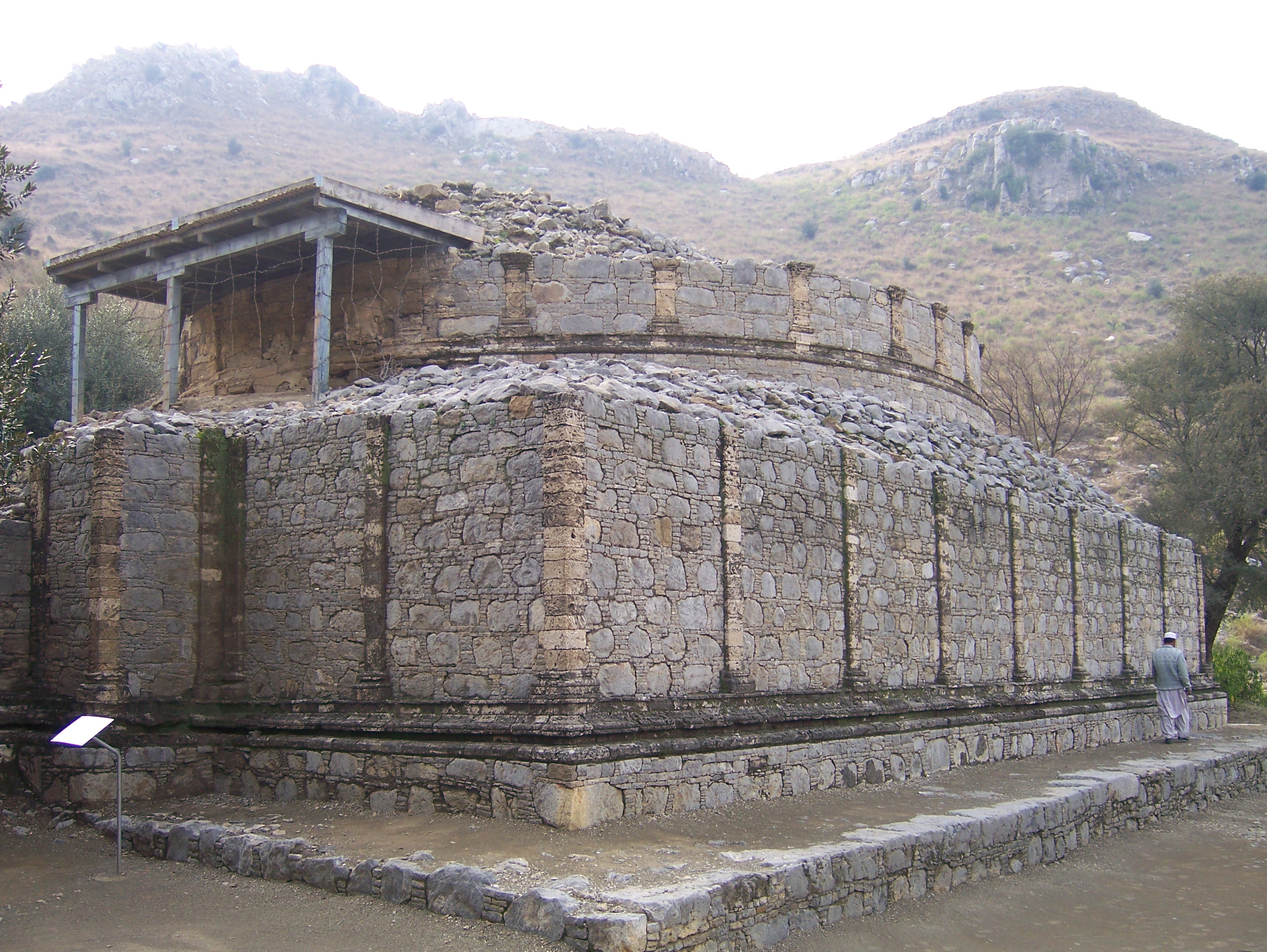 A view of the main stupa of the Mohra Muradu Buddhist monastery. Archaeological site located in ancient Taxila — in Punjab Province, Pakistan.